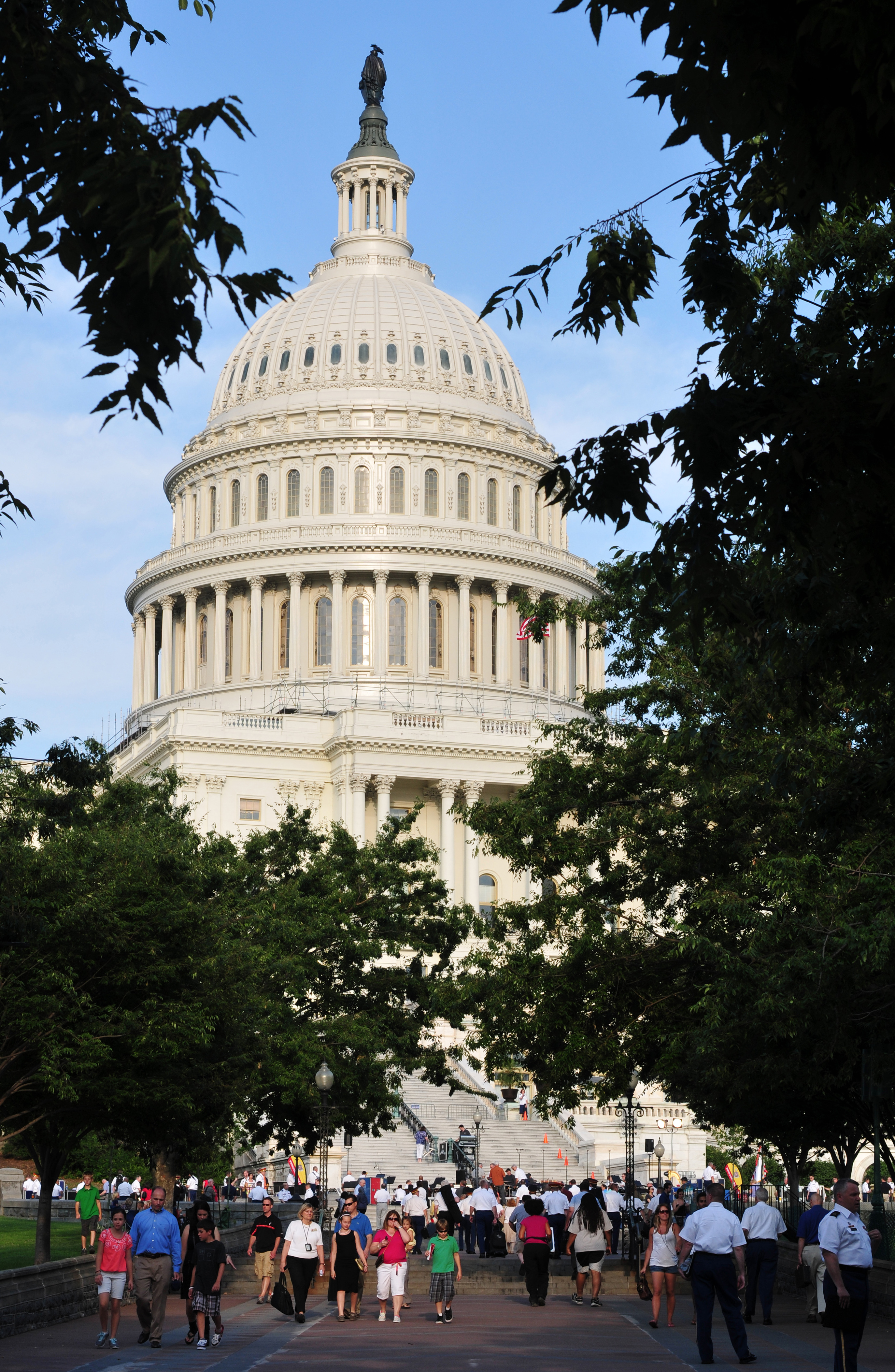 Washington D.C. The making of this work was supported by Wikimedia Austria. For other files made with the support of Wikimedia Austria, please see the category Supported by Wikimedia Österreich.